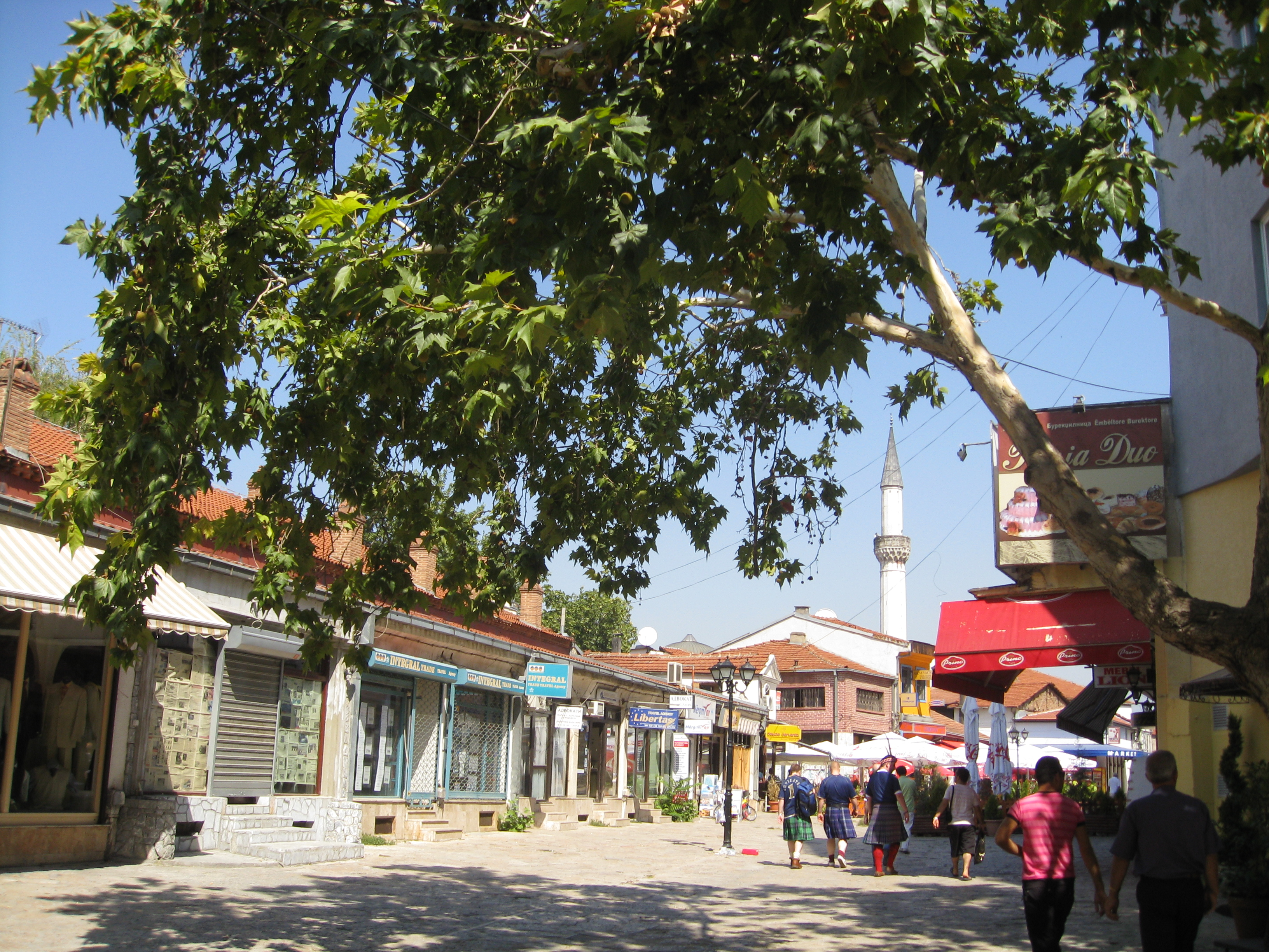 The Old Bazaar in Skopje, Macedonia